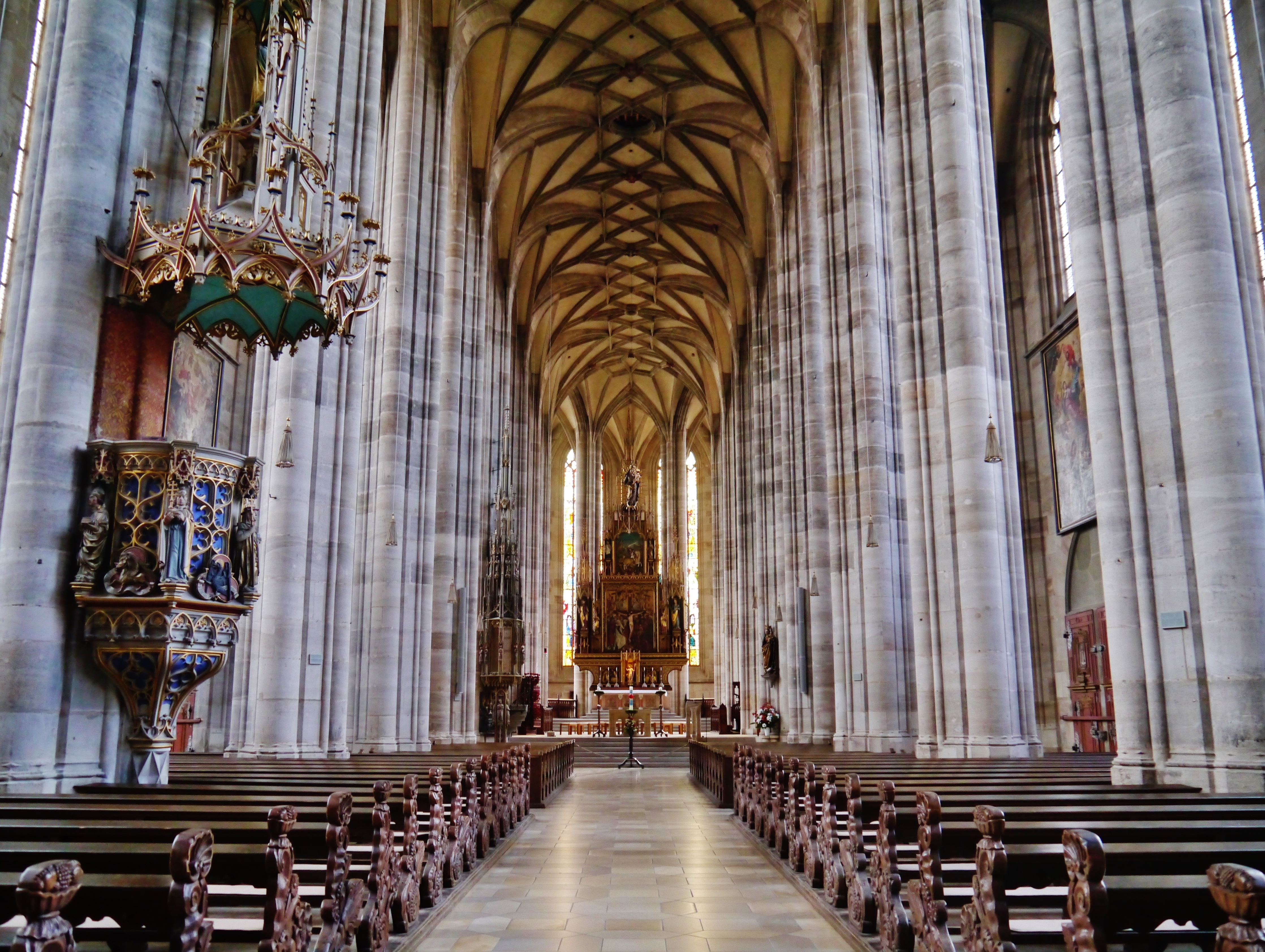 Nave of the Minster St. George, Dinkelsbühl, Bavaria, Germany